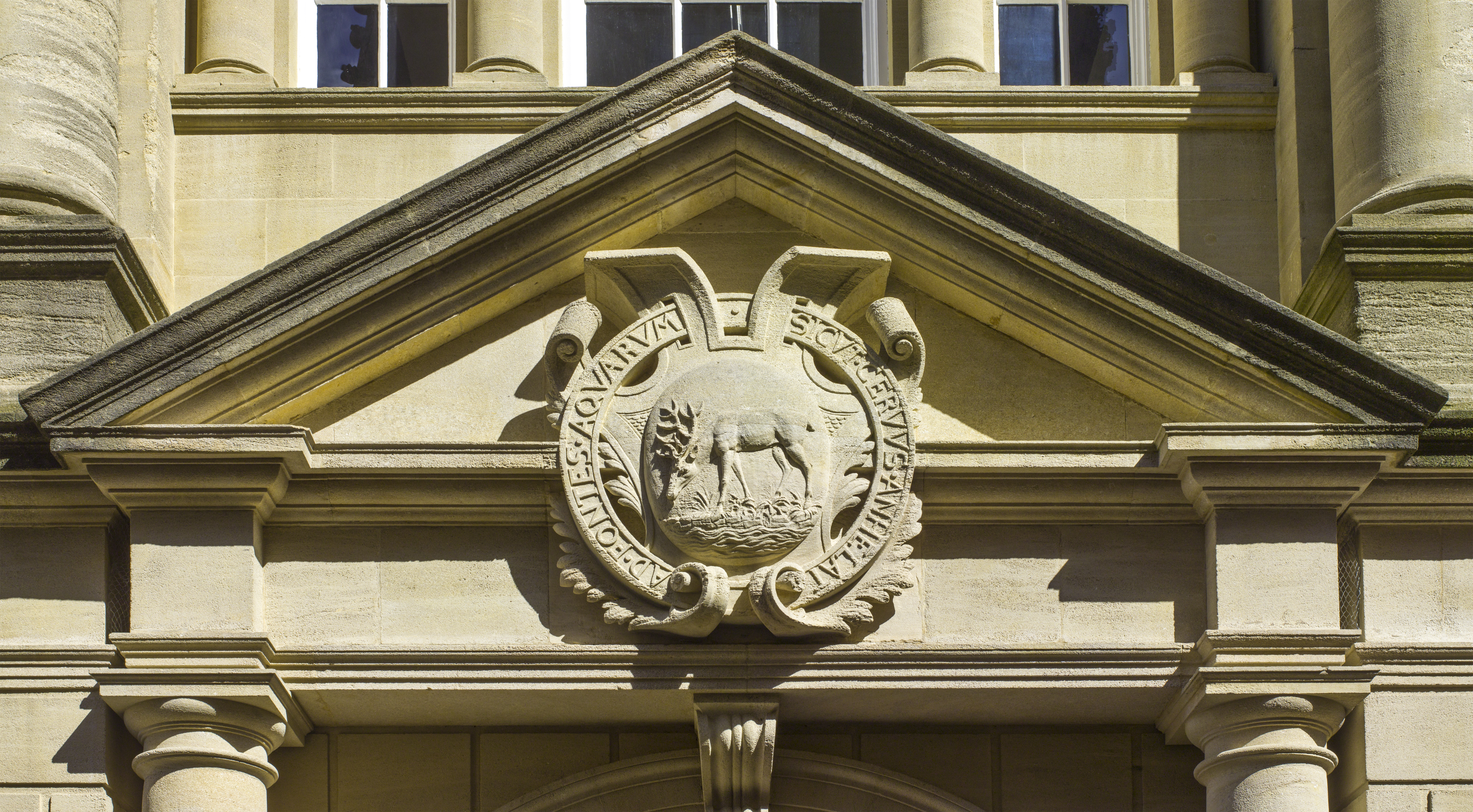 Hertford College (Oxford University) founded in 1282 as Hart Hall, 1448 as Madgalen Hall, and 1740 and 1874 as Hertford. College Entrance.